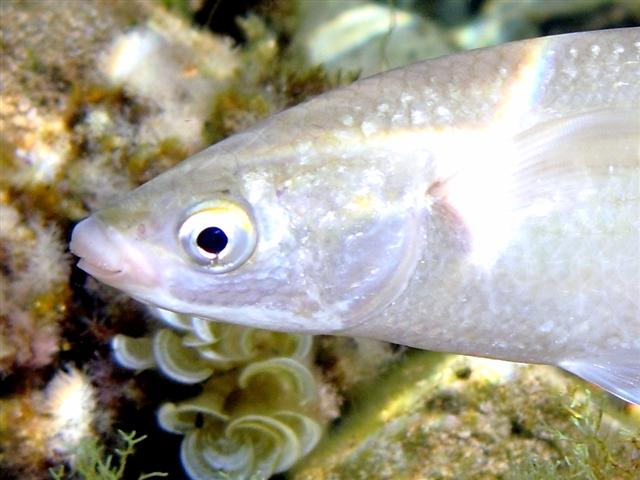 Head of Chelon labrosus photographed in Minprca, Spain.